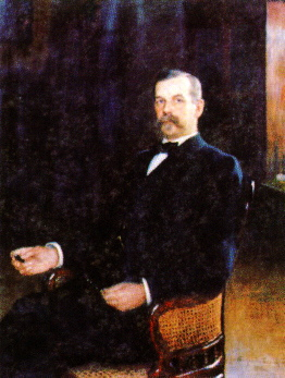 Johan Oskar Backlund (April 28, 1846 – August 29, 1916). Painting Баклунд Оскар Андреевич, астроном. 1900